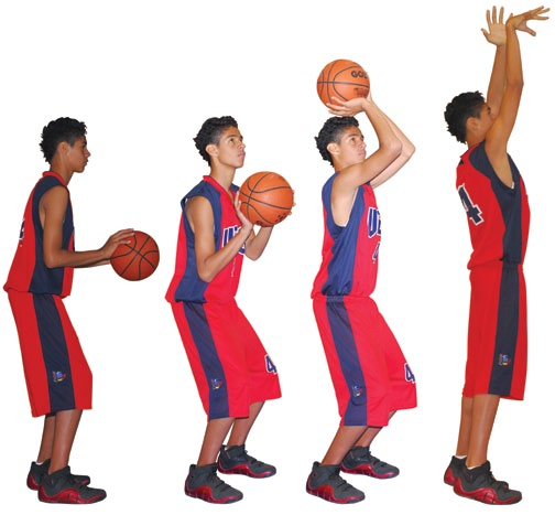 basketball